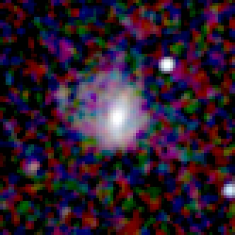 2MASS image of NGC 7072.